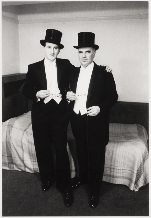 Peter Hunter (=Otto Salomon) (left) and his father Erich Salomon (right) (London, 1935) (Collection International Center of Photography (ICP), New York)